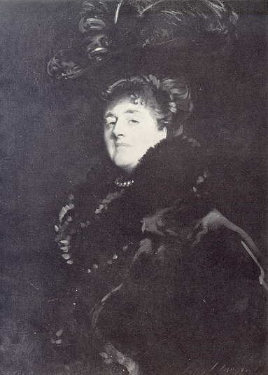 Theresa 'Nellie', Marchioness of Londonderry (1856-1919)